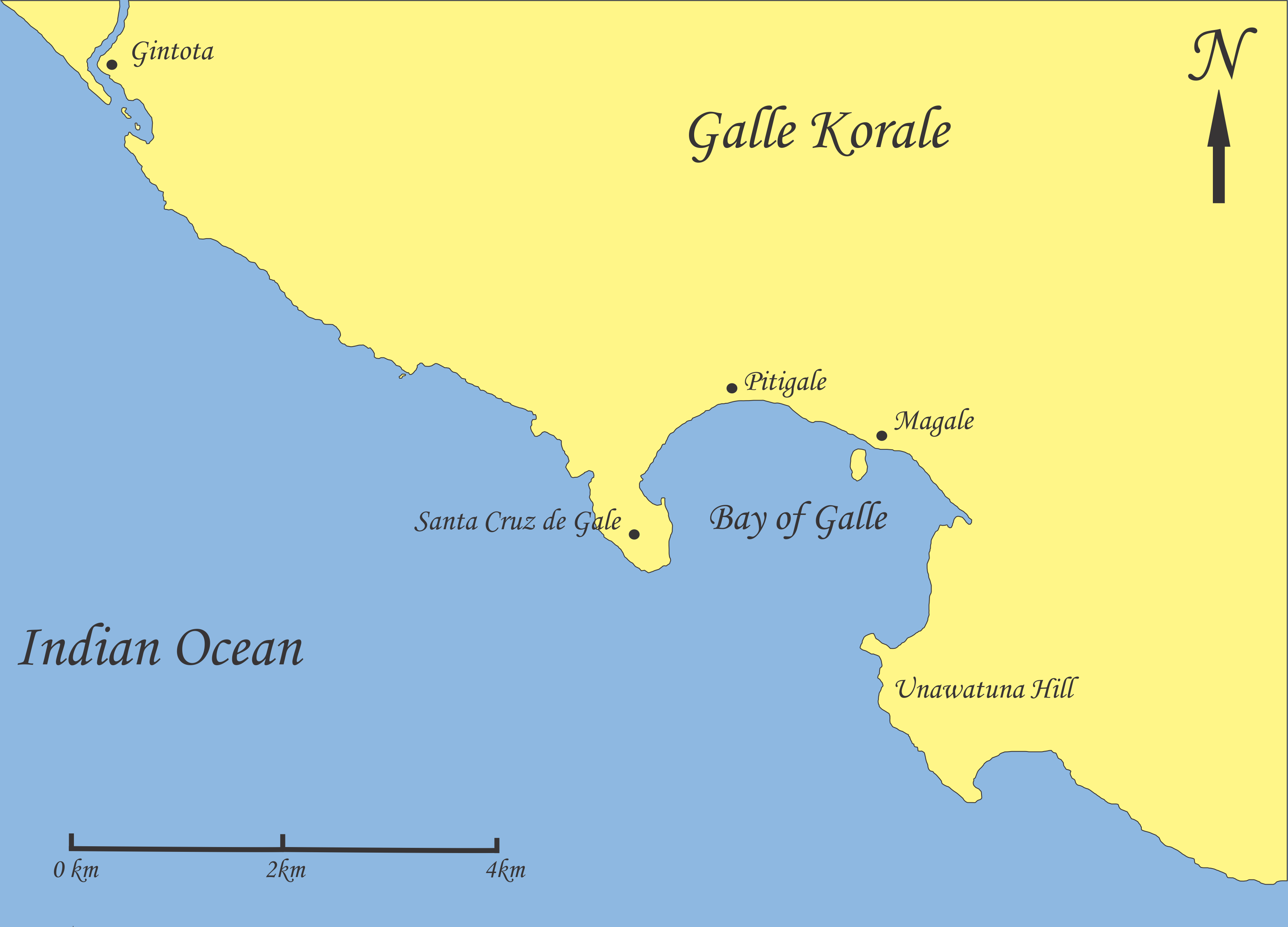 Map showing the Bay of Galle and the environ